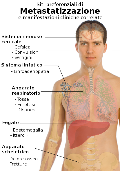 Main symptoms of cancer metastasis. Sources are found in main article: Wikipedia:Metastasis#Symptoms. Model: Mikael Häggström. To discuss image, please see Wikipedia:Wikipedia talk:WikiProject Medicine#Illustrations of symptoms